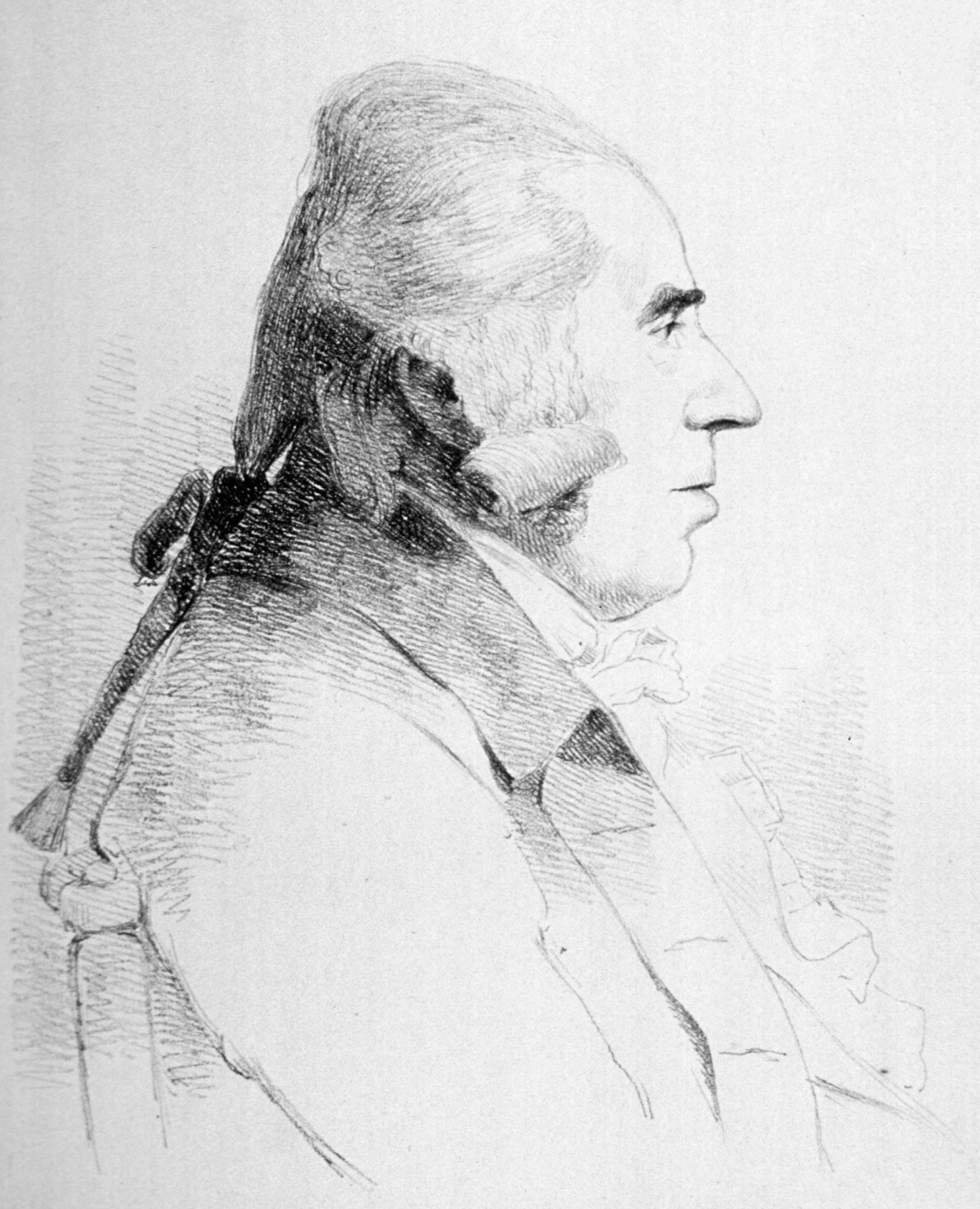 John Moore (1729 – 21 January 1802)